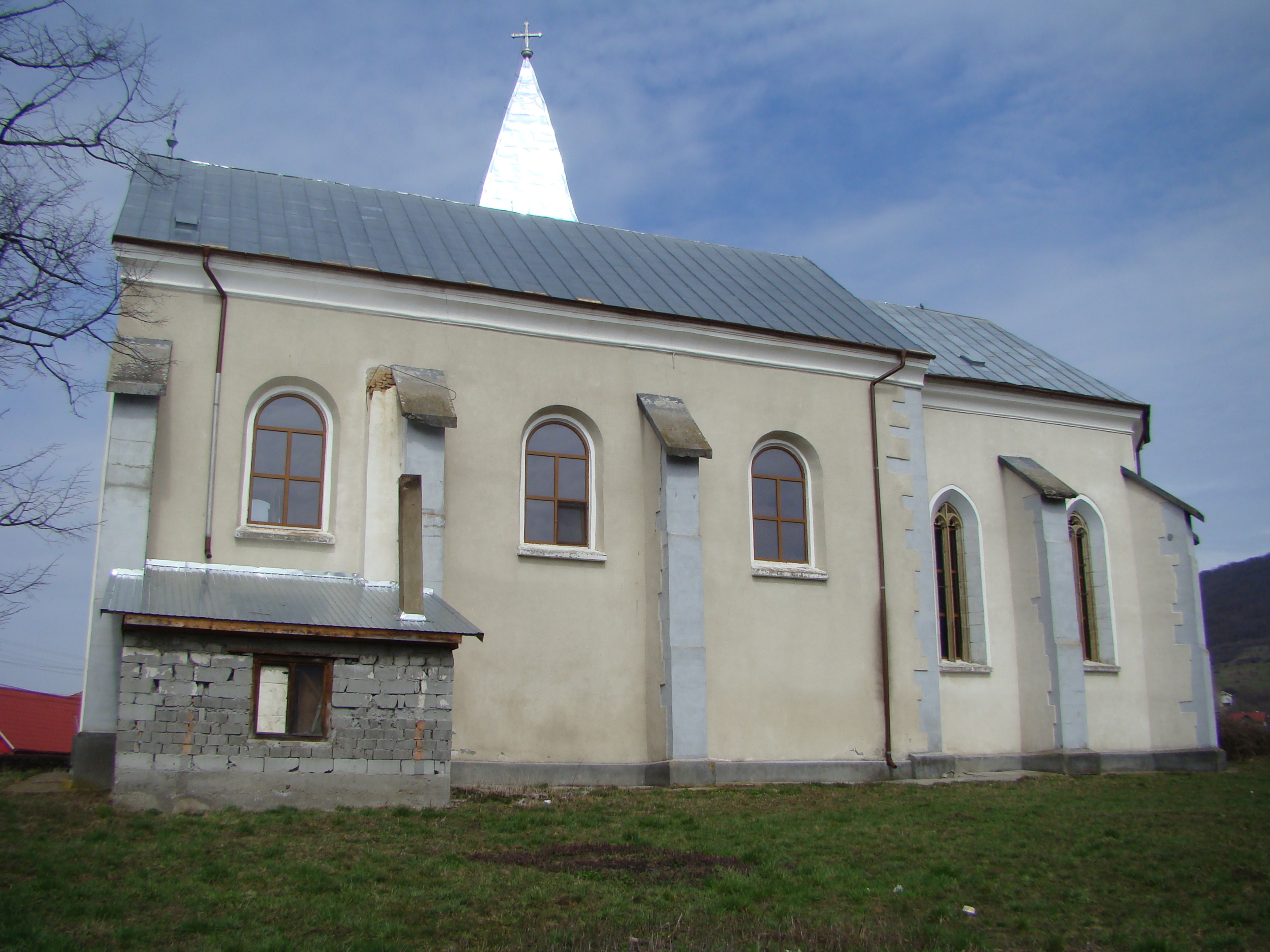 Saint Demetrius church in Crainimăt, Bistrița-Năsăud county, Romania